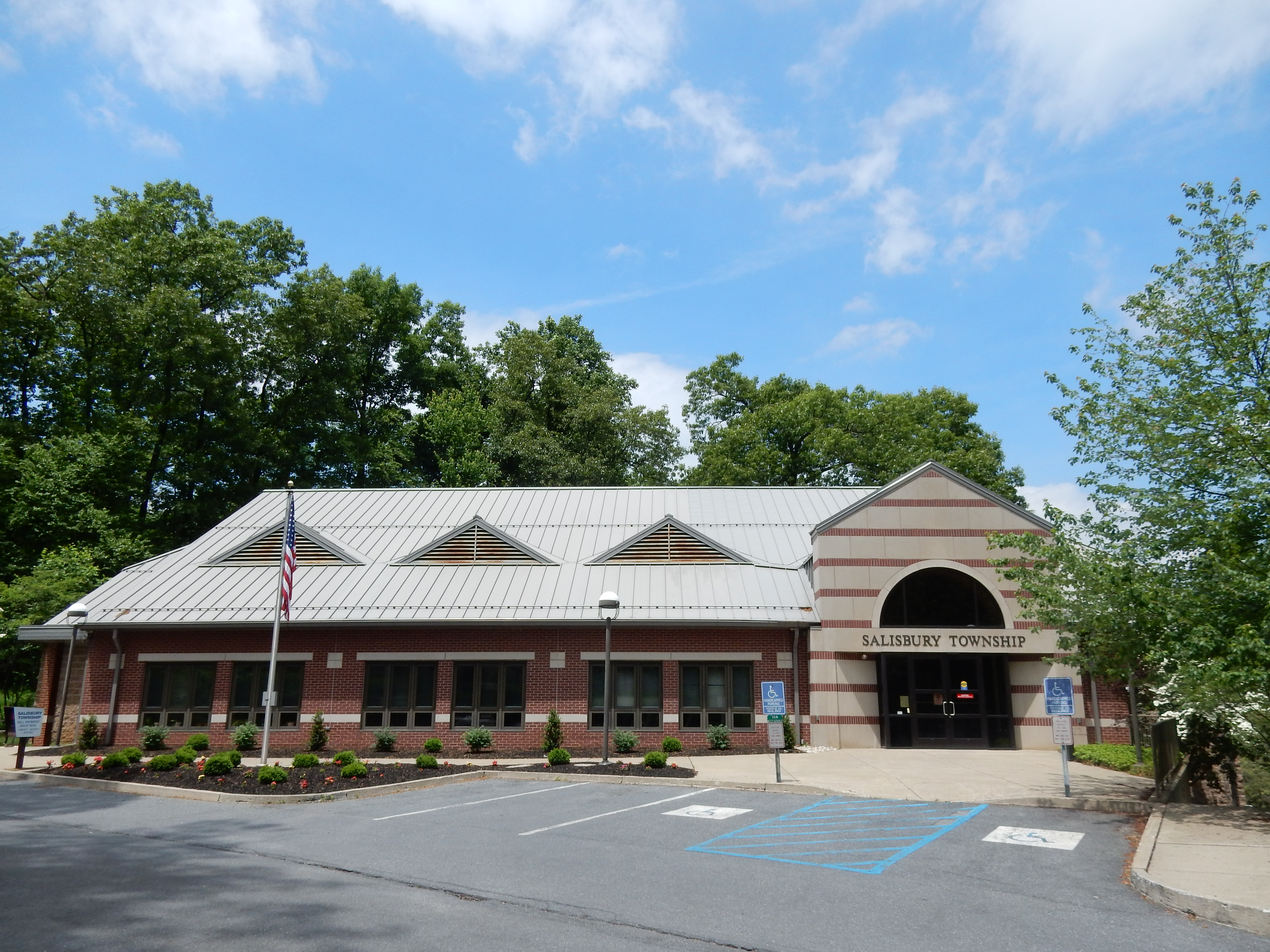 Summit Lawn, Pennsylvania. Salisbury Township Administration, 2900 S. Pike Ave., Allentown, Lehigh County, PA.